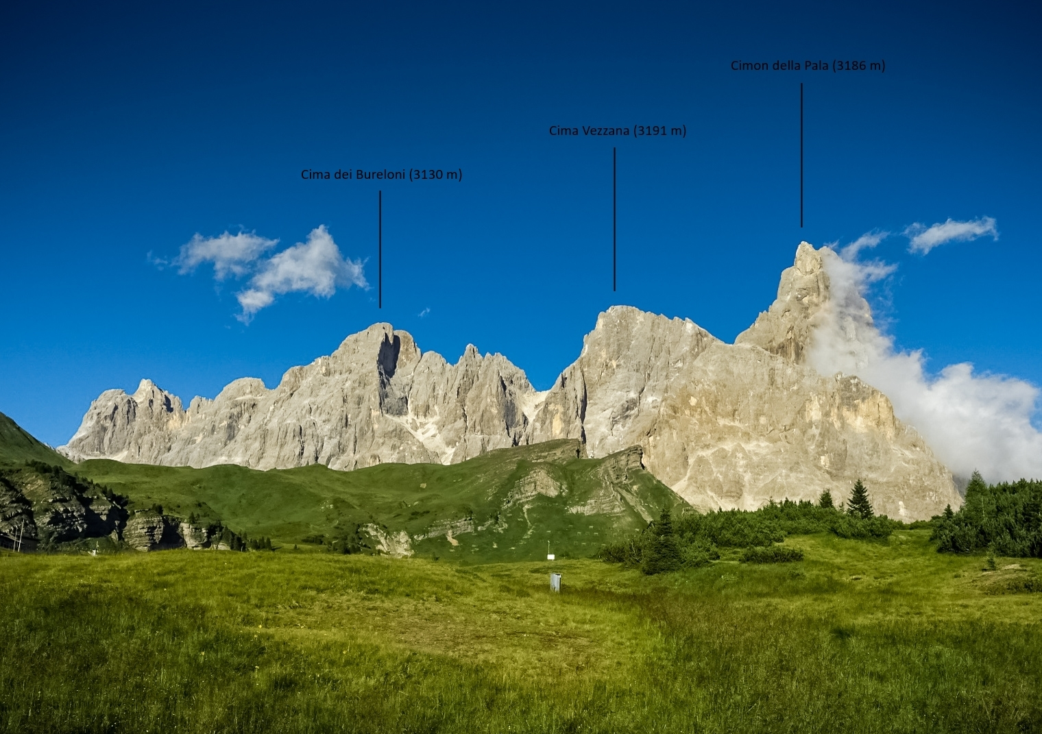 The "Pale di San Martino" Dolomite group seen from Rolle Pass